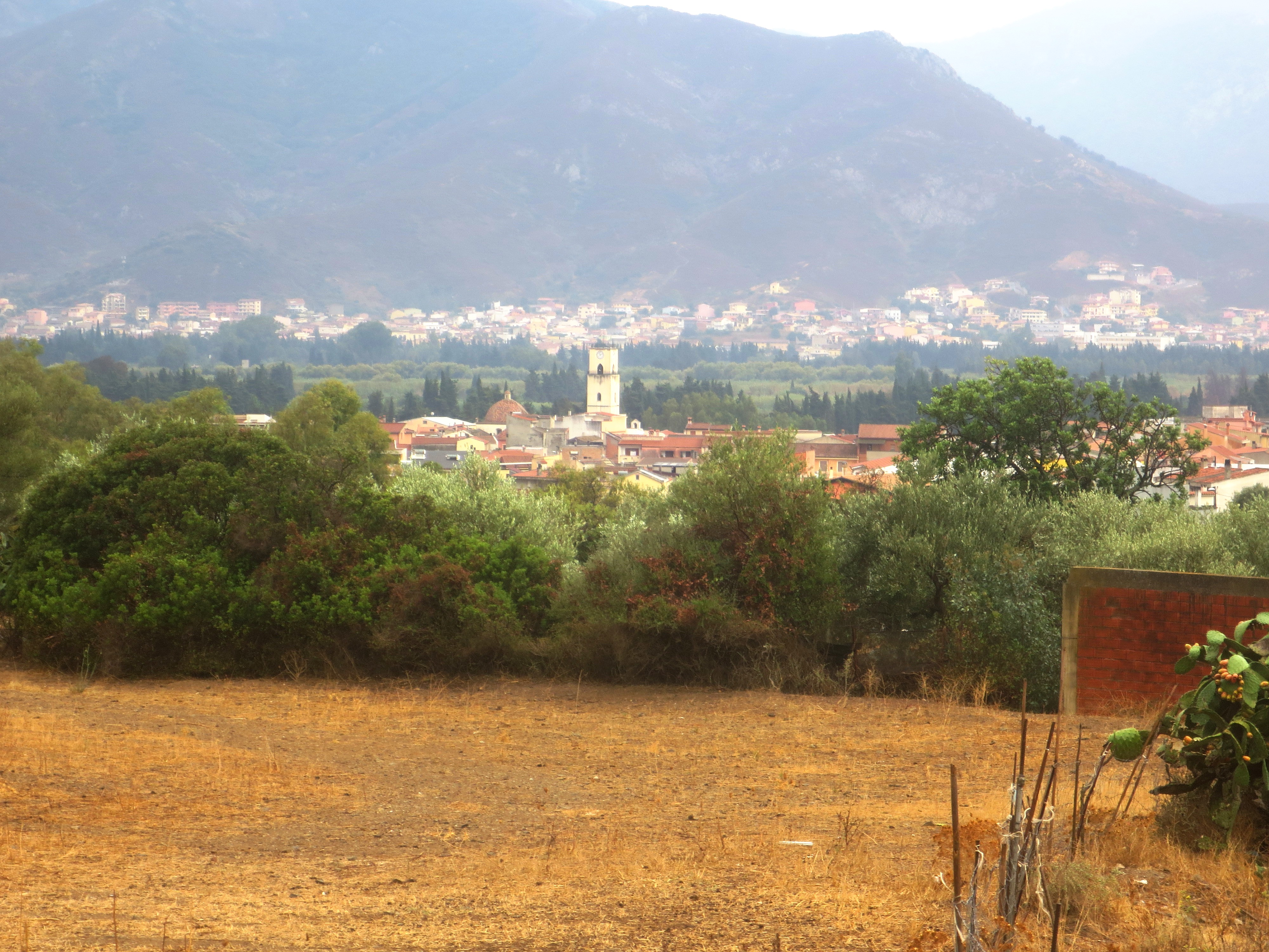 Villaputzu, Sardinia